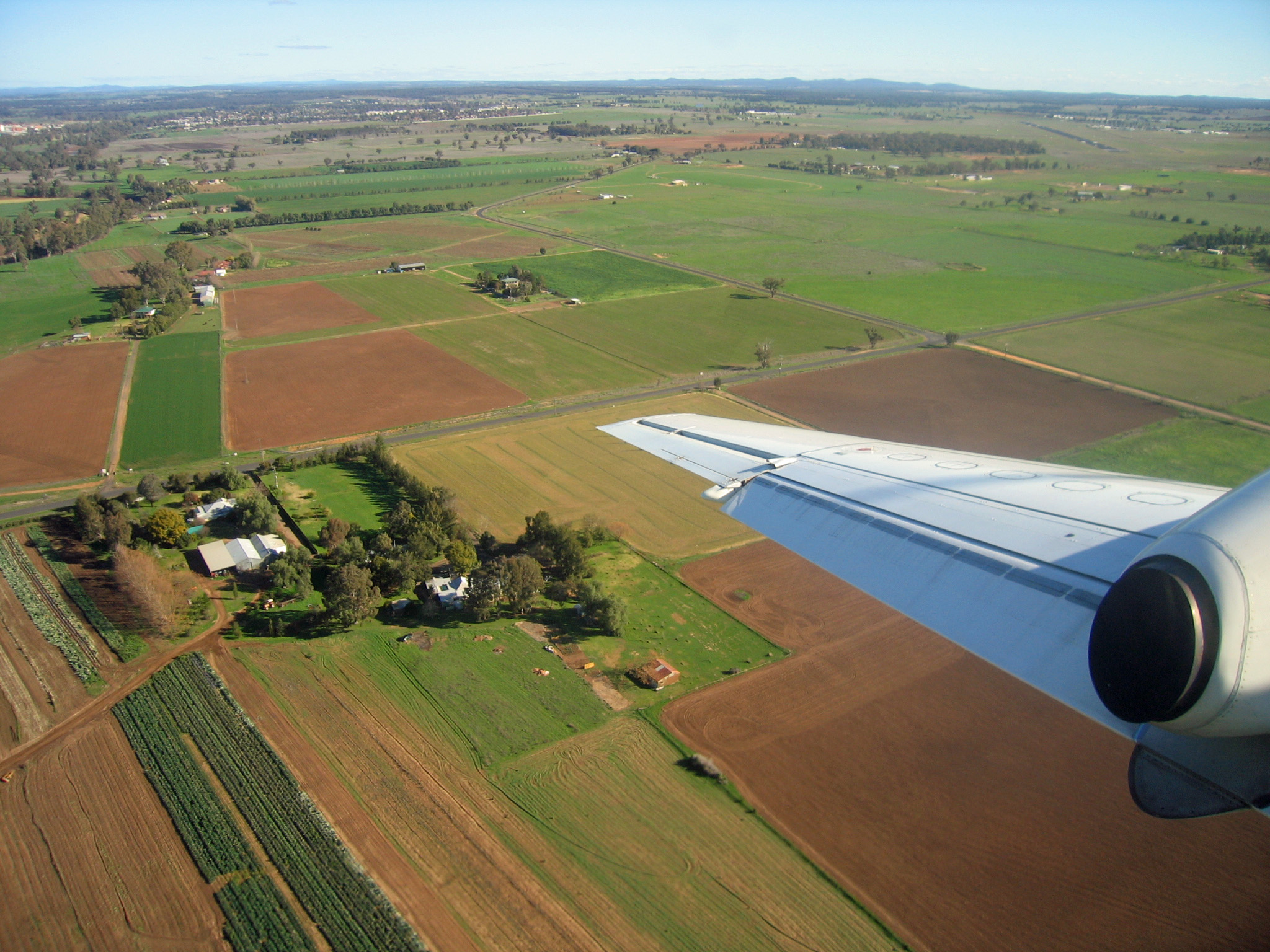 Looking towards the South from Dubbo